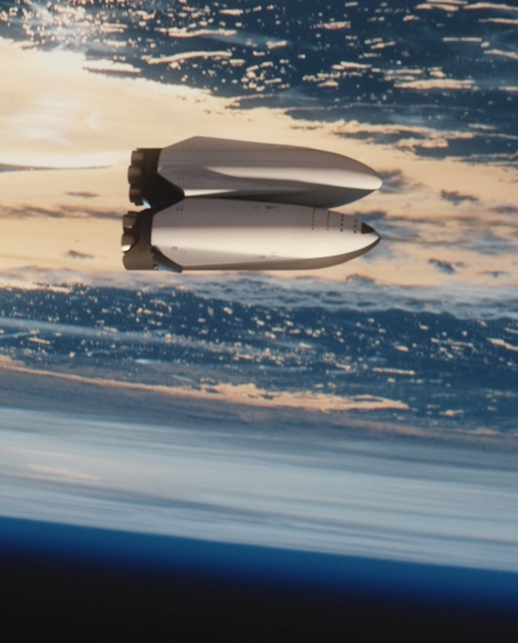 An ITS tanker (top) transferring propellant to an Interplanetary Spaceship (bottom), in Earth orbit. (cropped image from SpaceX-released